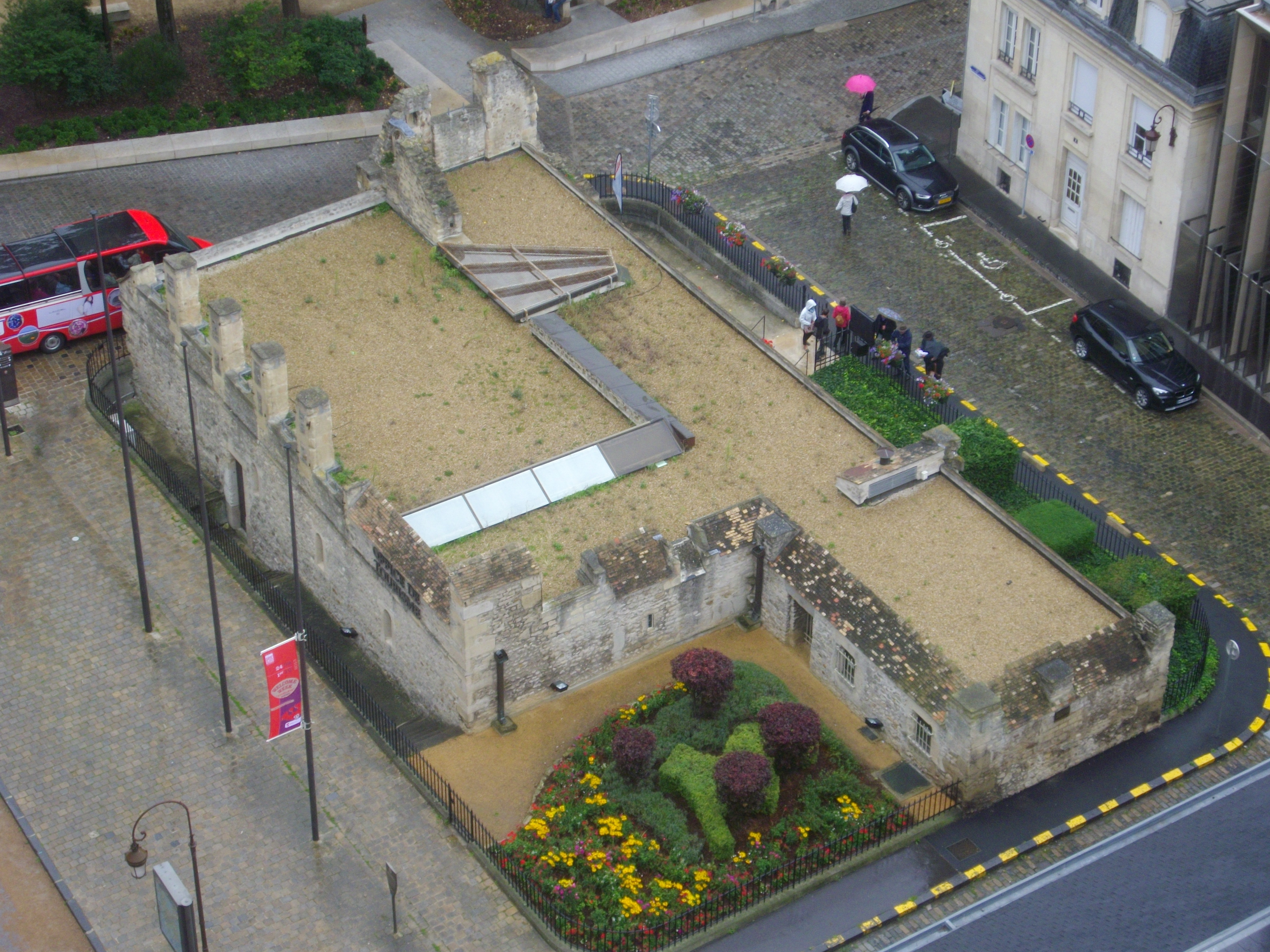 Tourists information centre of Reims (Marne, France), seen from the cathedral